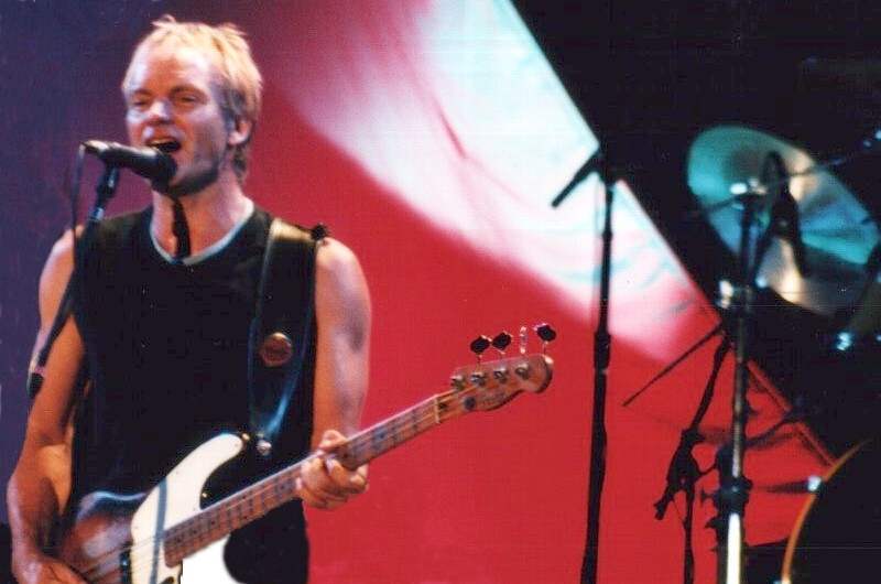 Edited version of File:Sting.jpg taken in Budapest.